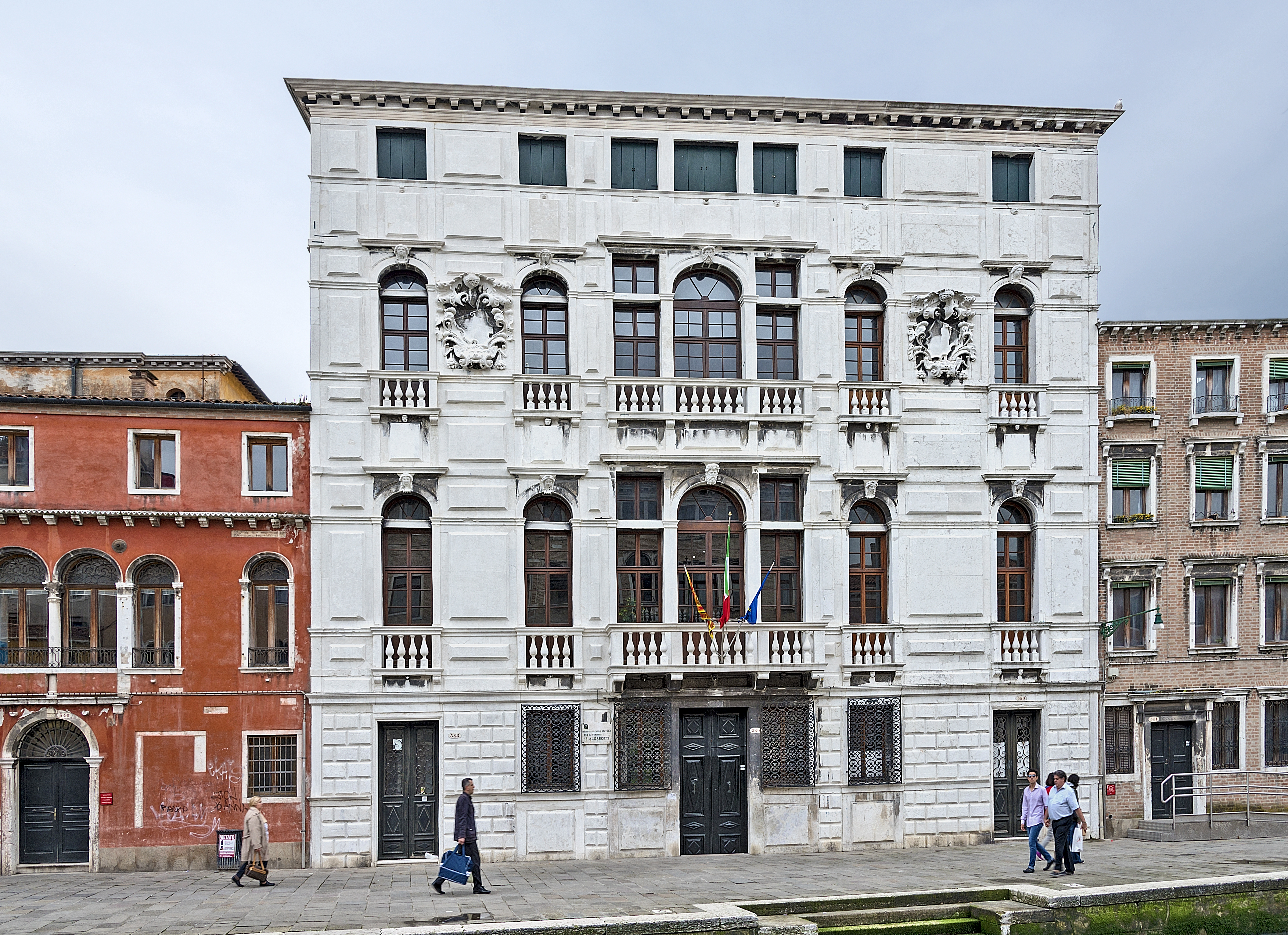 Palazzo Savorgnan Venice, facade on Cannaregio canal by Giuseppe Sardi.